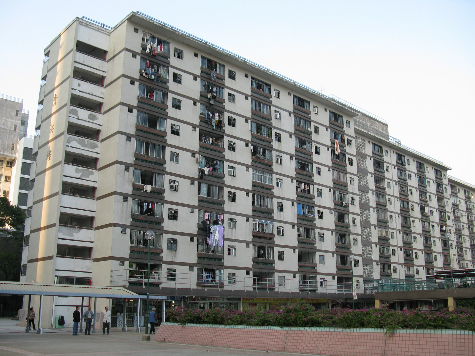 Ching Kwai House, Cheung Ching Estate